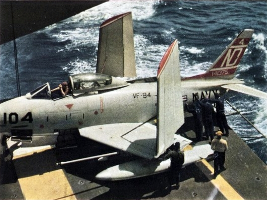 The U.S. Navy North American FJ-3M Fury (BuNo 141375) from Figher Squadron VF-94 on the port deck edge elevator aboard aircraft carrier USS Hornet (CVA-12). VF-94 was assigned to Air Task Group 4 (ATG-4) aboard teh Hornet for a deployment to the Western Pacific from 6 January to 2 July 1958.